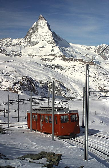 The Gornergratbahn near the station of Gornergrat (Valais / Switzerland)